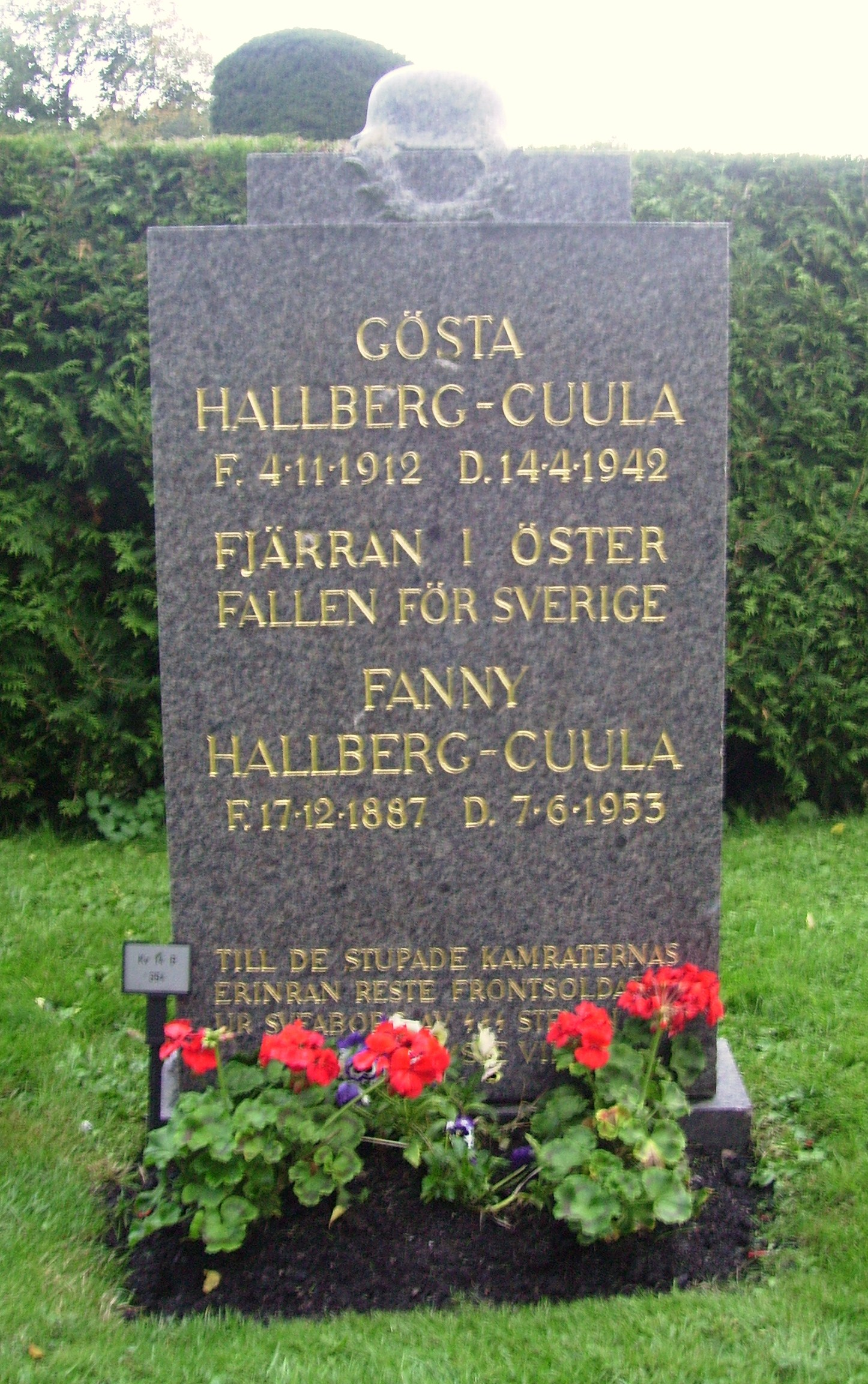 Picture of Gösta Hallberg-Cuula's grave at Norra begravningsplatsen in Solna